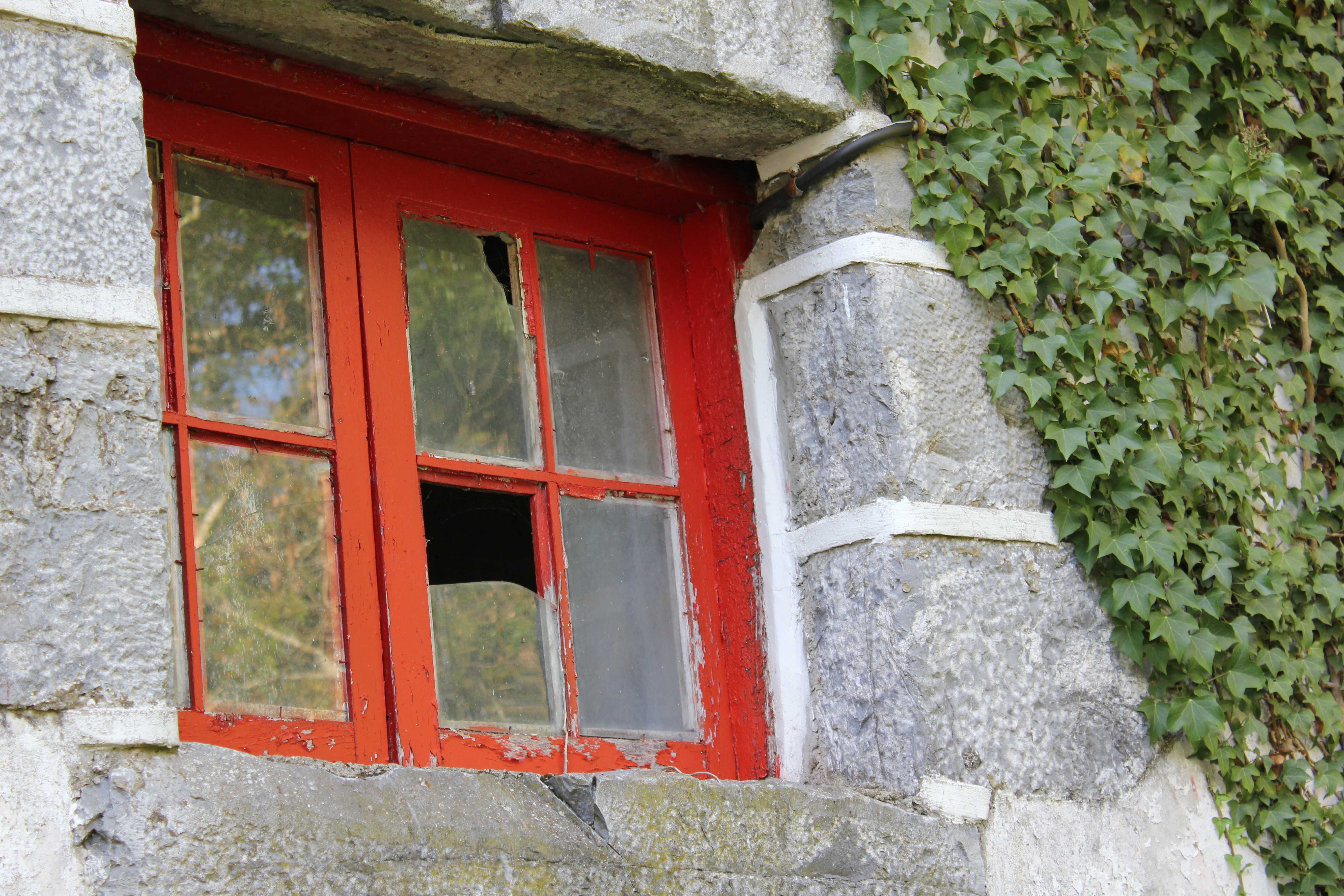 Window in Artikutza, Navarre.